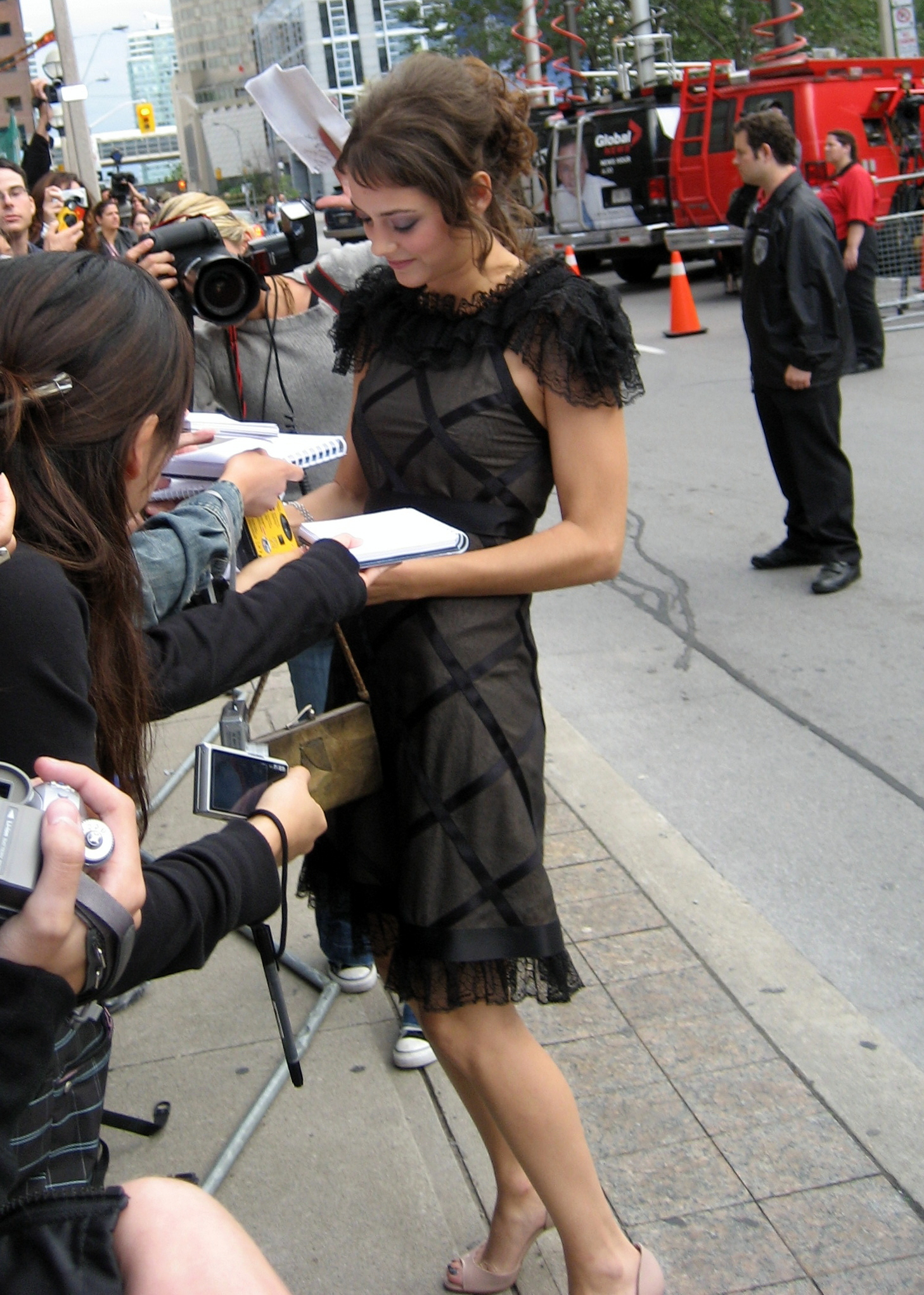 Unfortunately, this was the year before she made it big in La Vie En Rose. I would have liked more pics. Marion Cotillard at the premiere of A Good Year, Toronto Film Festival 2006